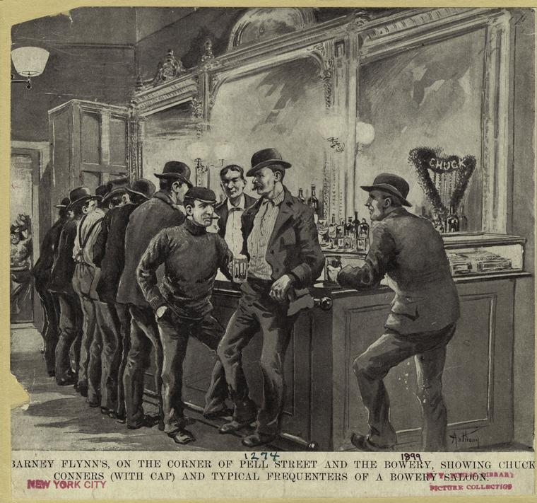 Barney Flynn's bar in the Edward Mooney House